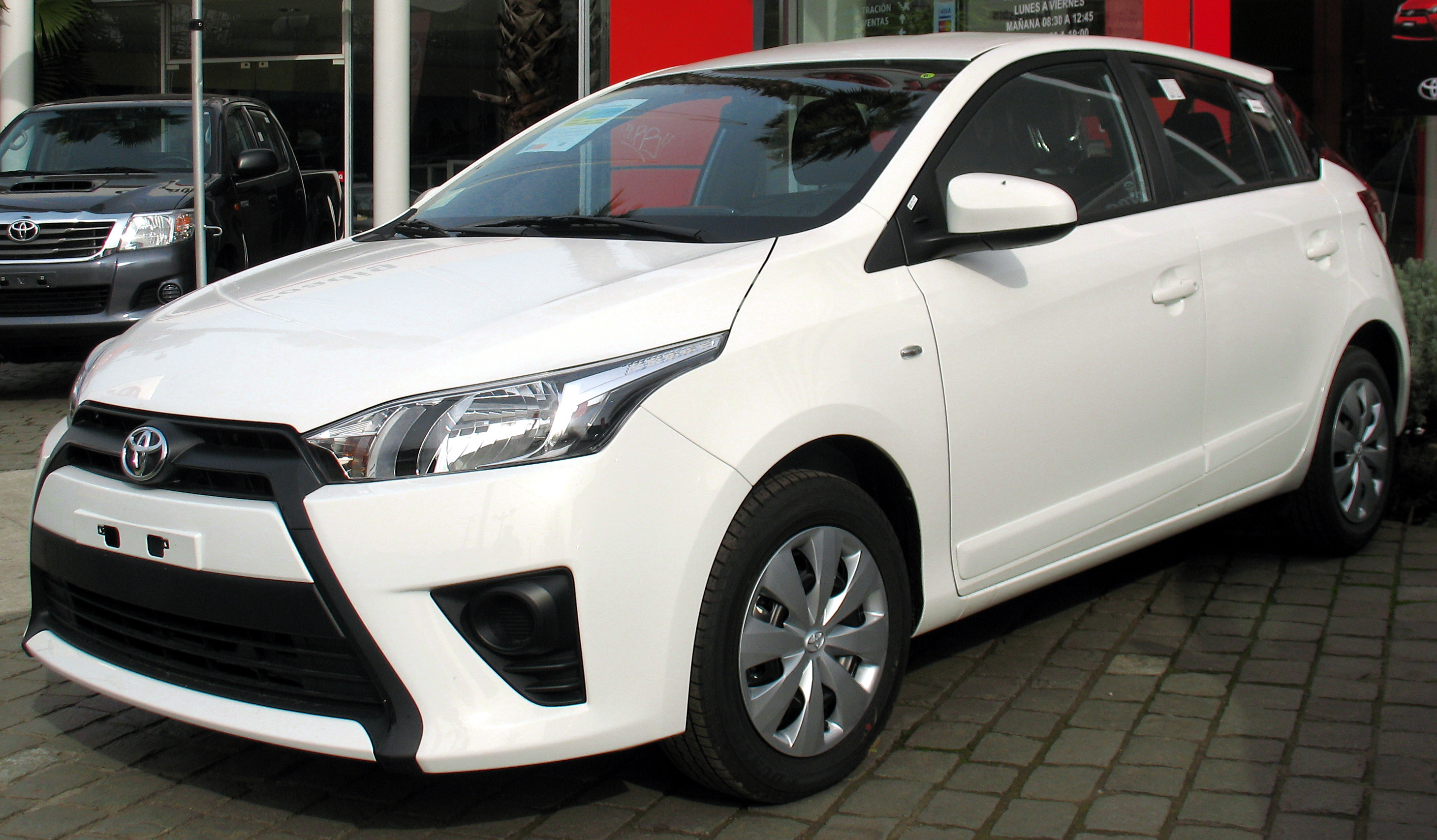 Toyota Yaris 1.5E GL 2014